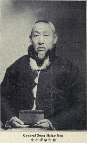 Song Xiaolian, Youmei (1863 - 1926)